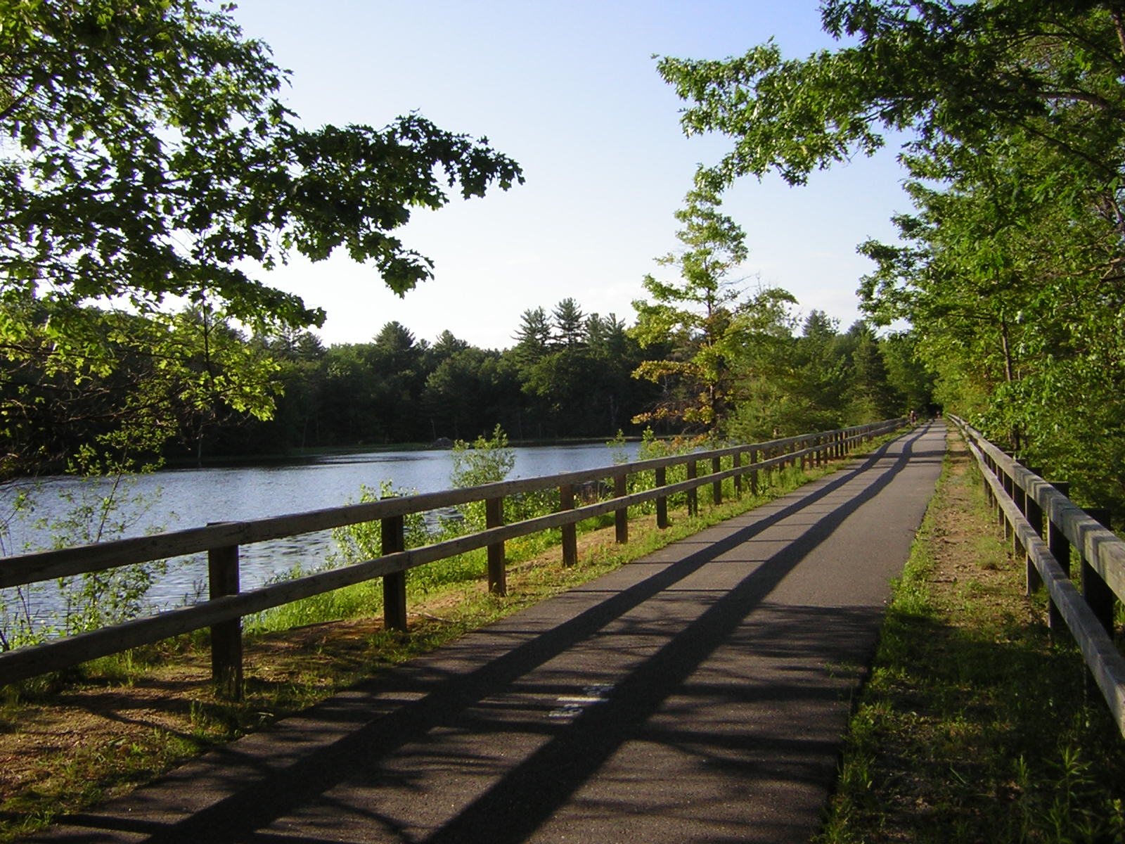 Photo of the Nashua River Rail Trail and the Groton School Pond in Groton, Massachusetts